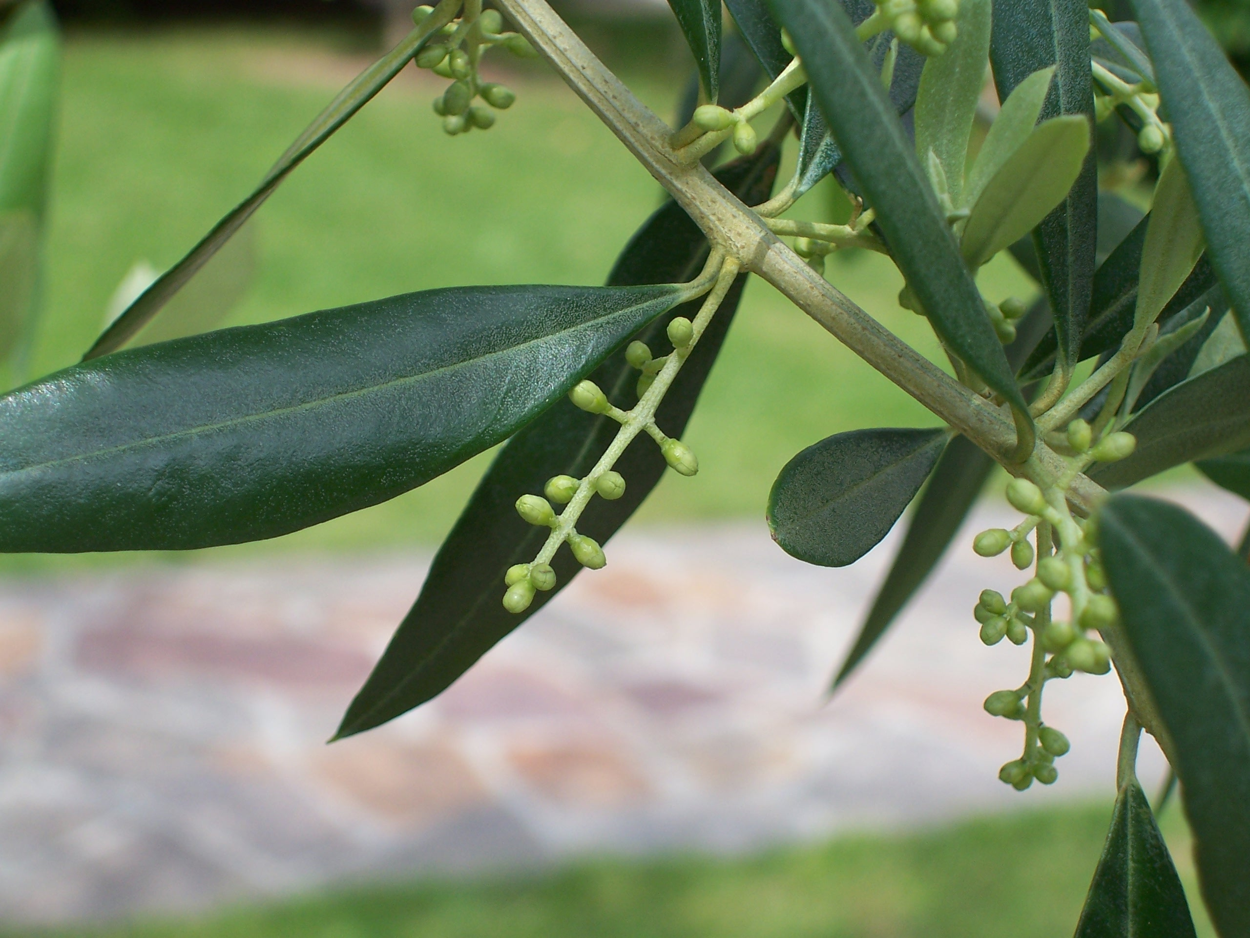 Flower of Olea europaea